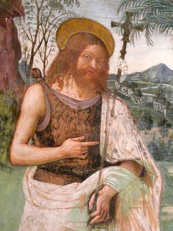 detail: John the Baptist